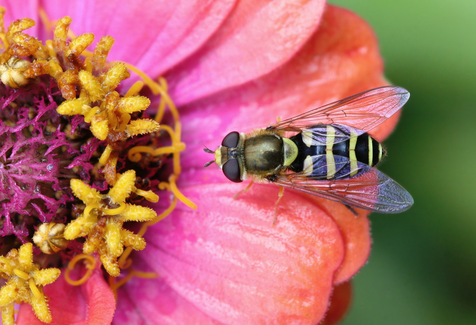 American Hover Fly (Eupeodes americanus) on a Zinnia, found in Lodi, California.